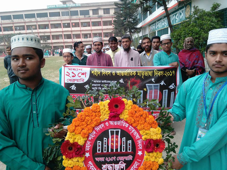 This is pabna islamia Madrassha international mother language & shaheed diboss celebration in 2017.